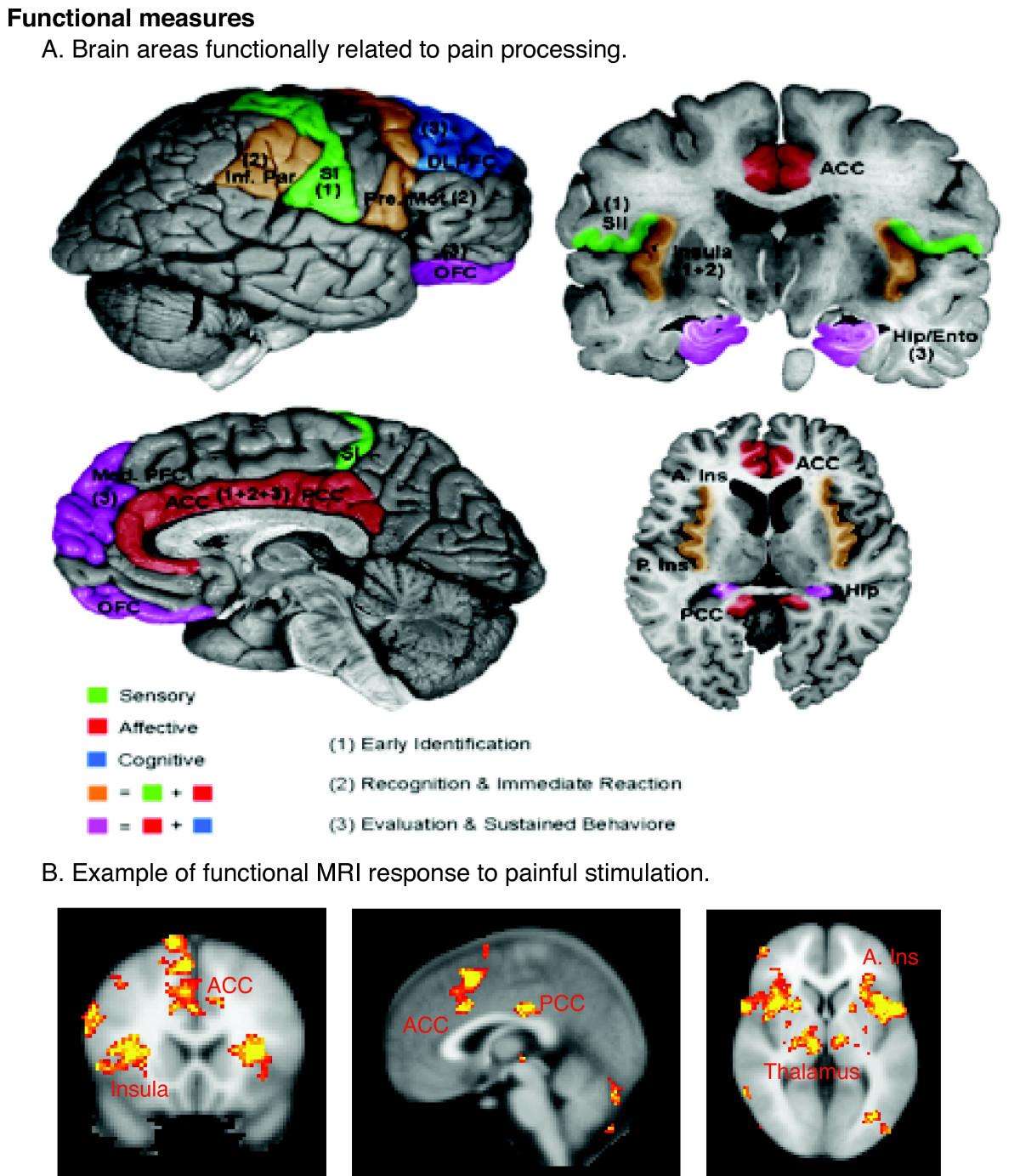 Examples of CNS Functional Measures. A. Schematic of cortical areas involved with pain processing. The highlighted areas summarize areas found active in previous functional imaging studies. Color-coding reflects the hypothesized role of each area in processing the different psychological dimensions of pain. Numbers in parentheses indicate the relative involvement of these areas during different temporal stages of the pain experience. Areas displayed include insula, anterior cingulate cortex (ACC), posterior cingulate cortex (PCC), primary somatosensory cortex (SI), secondary somatosensory cortex (SII), inferior parietal lobe (Inf. Par), dorsolateral prefrontal cortex (DLPFC), pre-motor cortex (Pre-Mot), orbitofrontal cortex (OFC), medial prefrontal cortex (Med. PFC), posterior insula (P. Ins), anterior insula (A. Ins), hippocampus (Hip), entorhinal cortex (Ento). [Reprinted with permission from Casey and Tran, Ch.12, Handbook of Clinical Neurology, vol.81, 2006]. For examples of brainstem involvement in pain processing, please refer to Tracey and Iannetti ([52]). B. Example of fMRI responses to painful phasic thermal stimulation to the forehead in a cohort of 12 subjects. (Moulton et al., unpublished observations). Borsook et al. Molecular Pain 2007 3:25